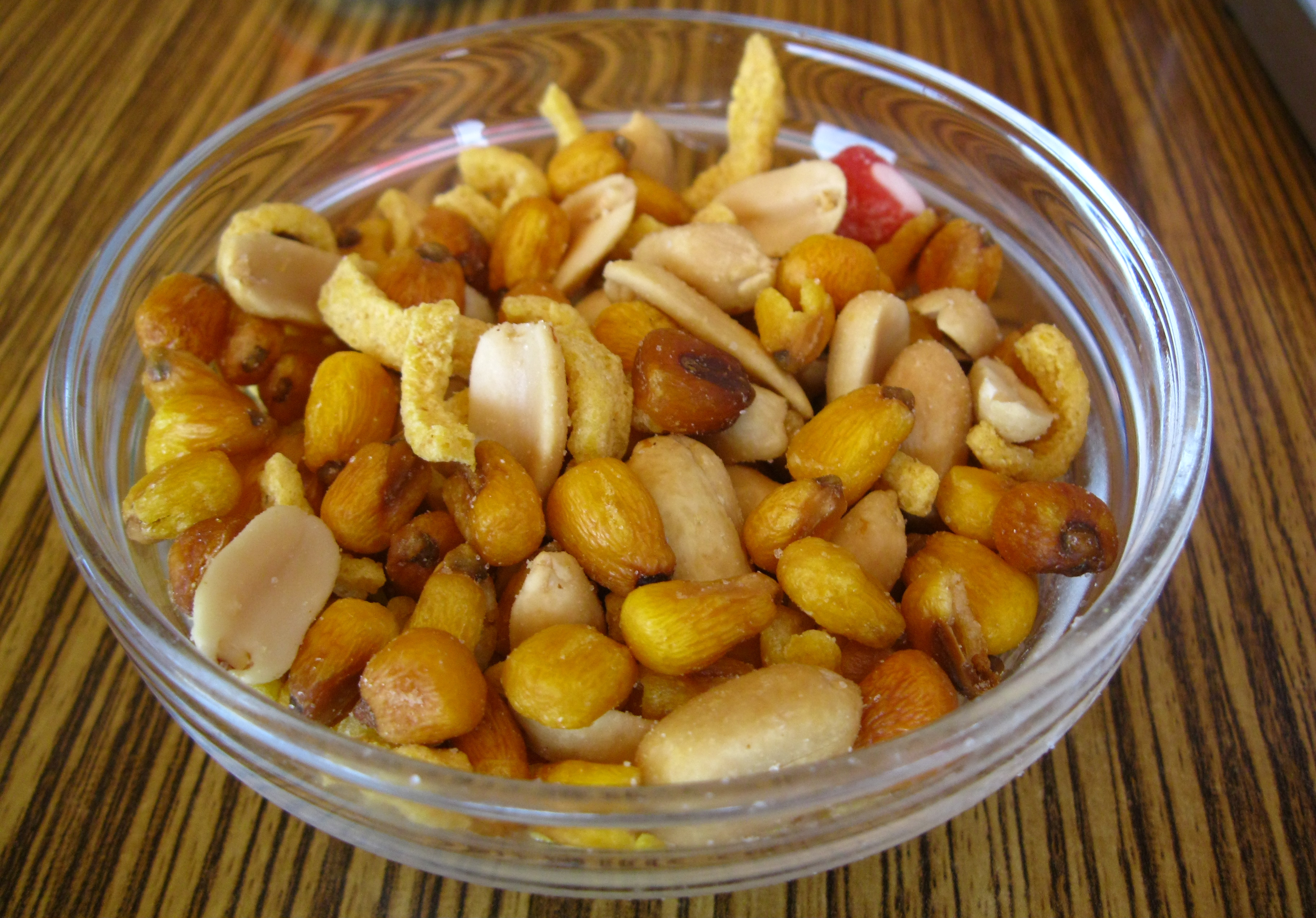 Nuts.